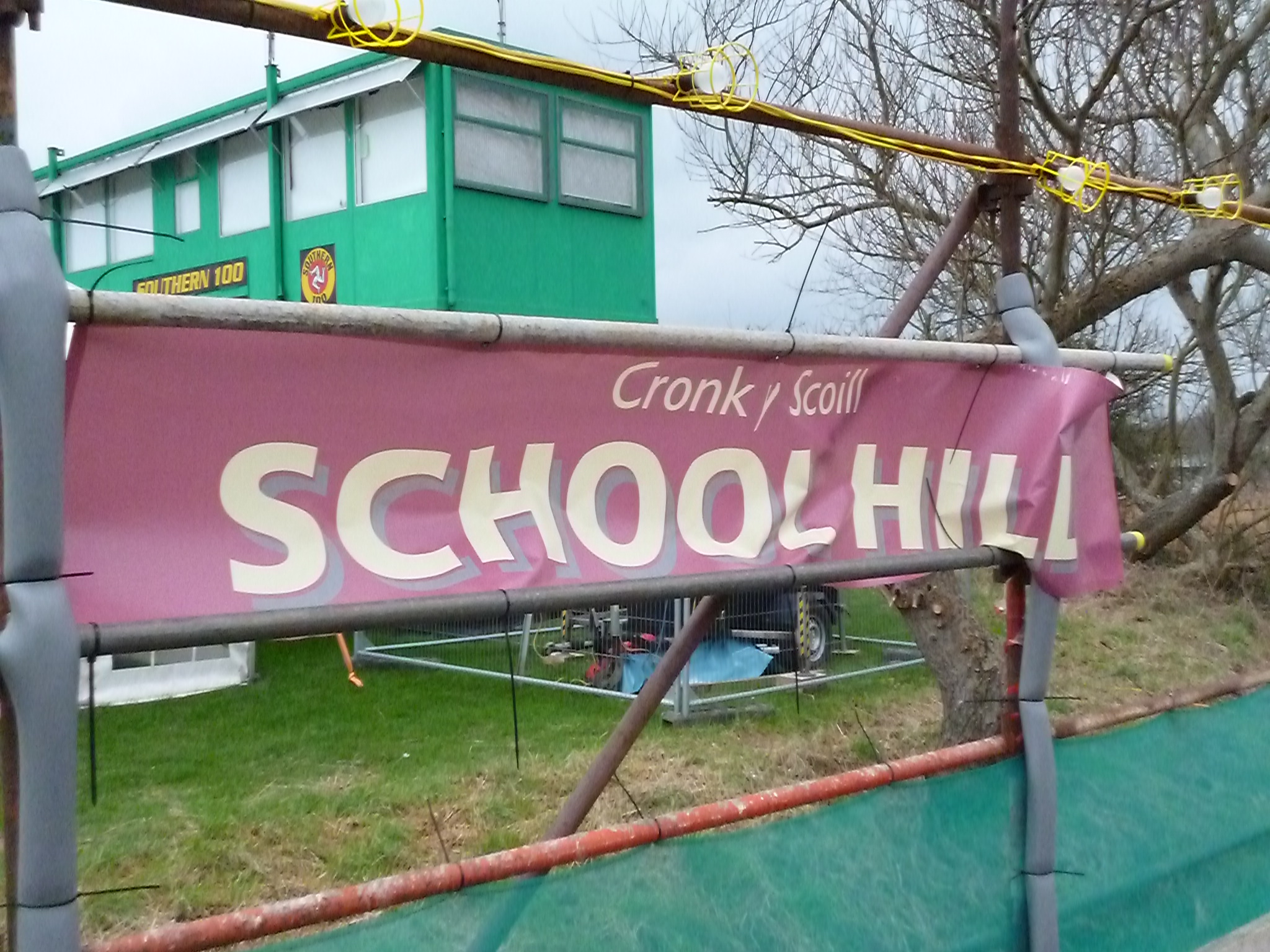 Temporary station at School Hill in Castletown on the Isle of Man Railway